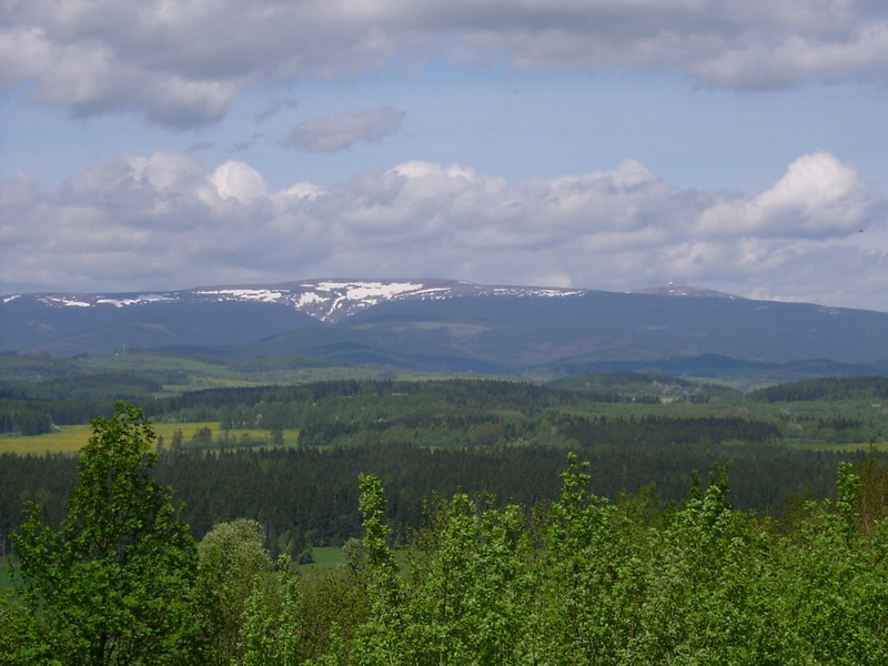 Hrubý Jeseník Mts., Czech Republic. A view from Uhlířský vrch.